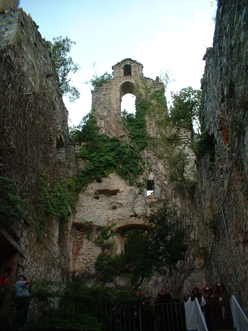 the church of the botanical garden of santa catalina of badaya in the Basque Country, Vitoria.